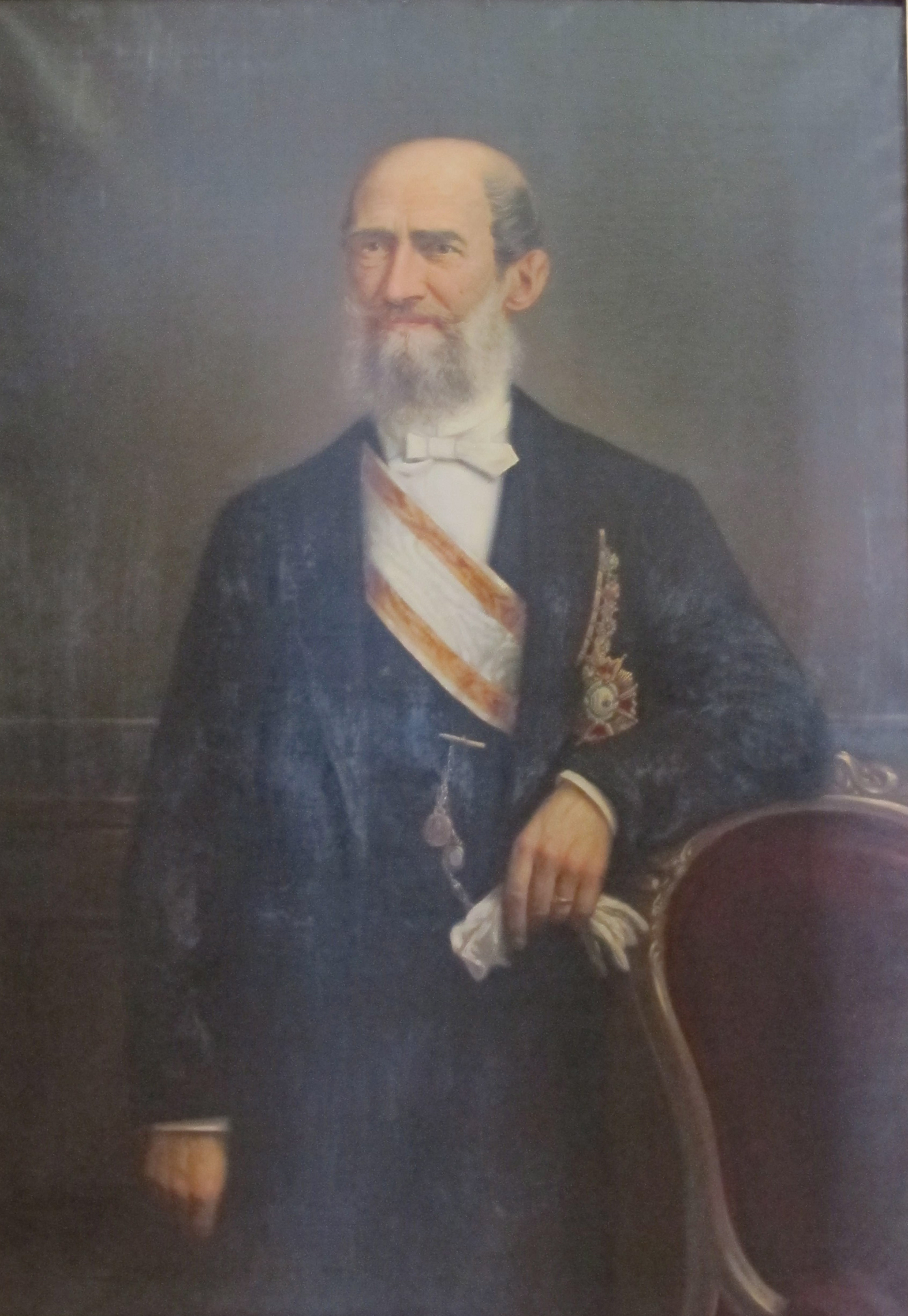 Eugène burggraaf de Kerckhove van der Varent, burgemeester van Mechelen (1884-1889)